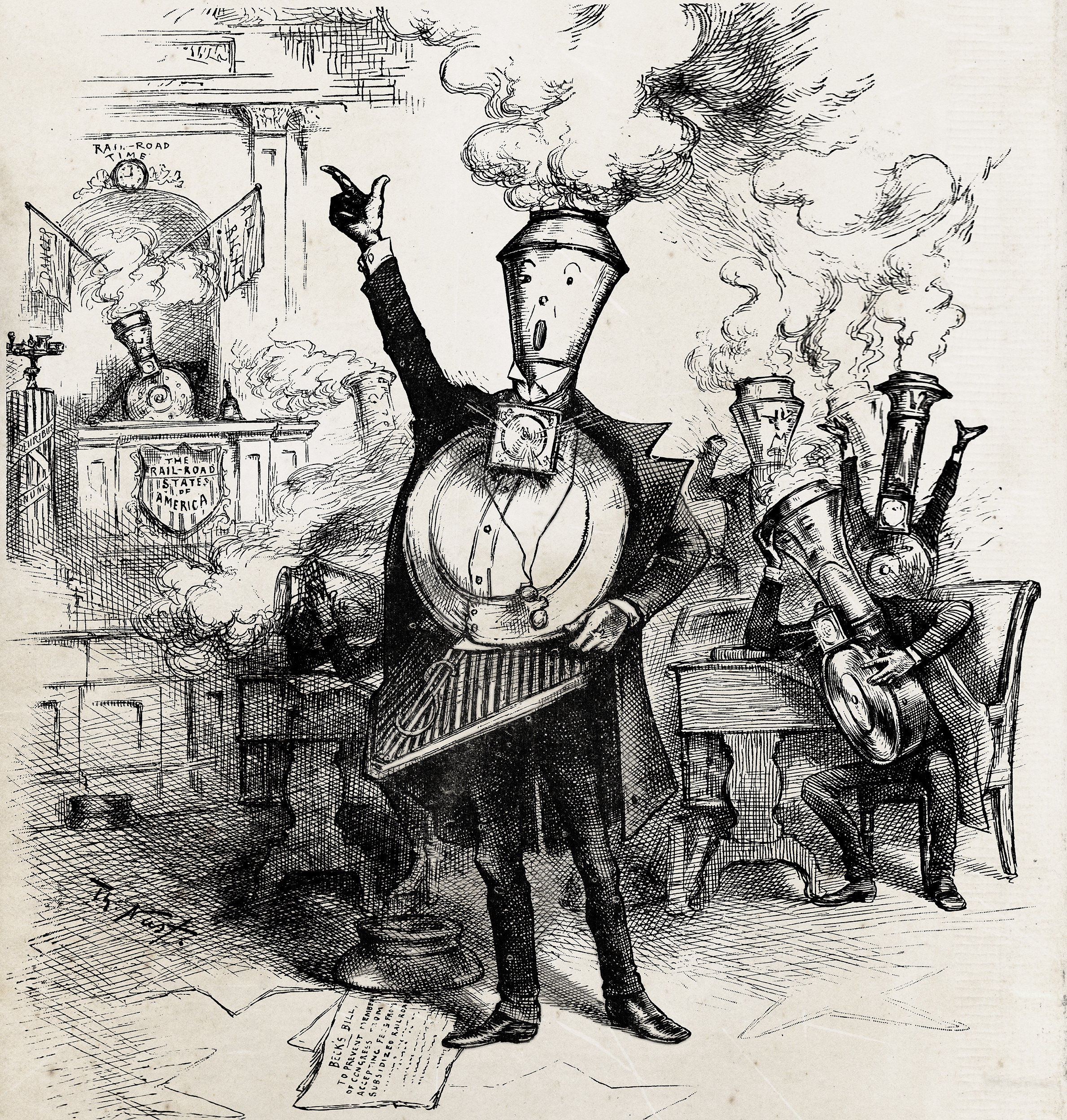 "Senatorial Round House" Engraving by Thomas Nast (1840-1902)